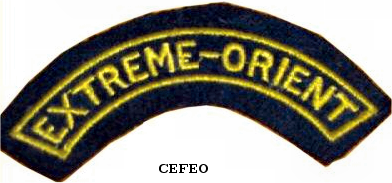 Photography of a shoulder insignia of the French Far East Expeditionary Corps (Corps Expéditionnaire Français en Extrême-Orient, CEFEO). Corps was disbanded in 1956, it was created in 1945.